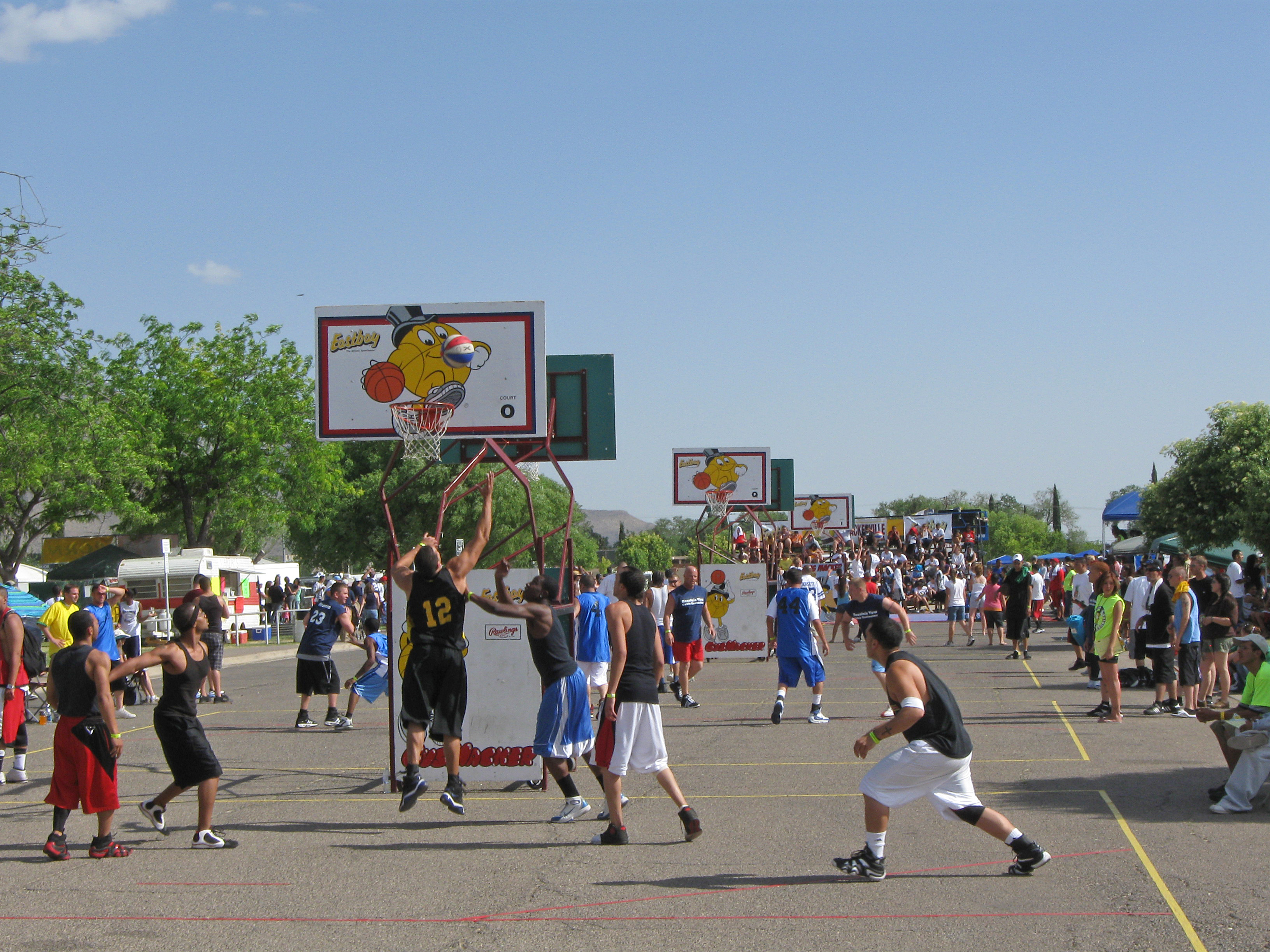 Gus Macker basketball tournament, held in Alamogordo, New Mexico, in May 2009. Several blocks of Washington Avenue adjacent to Washington Park were closed off for the event and the basketball courts placed on the street.